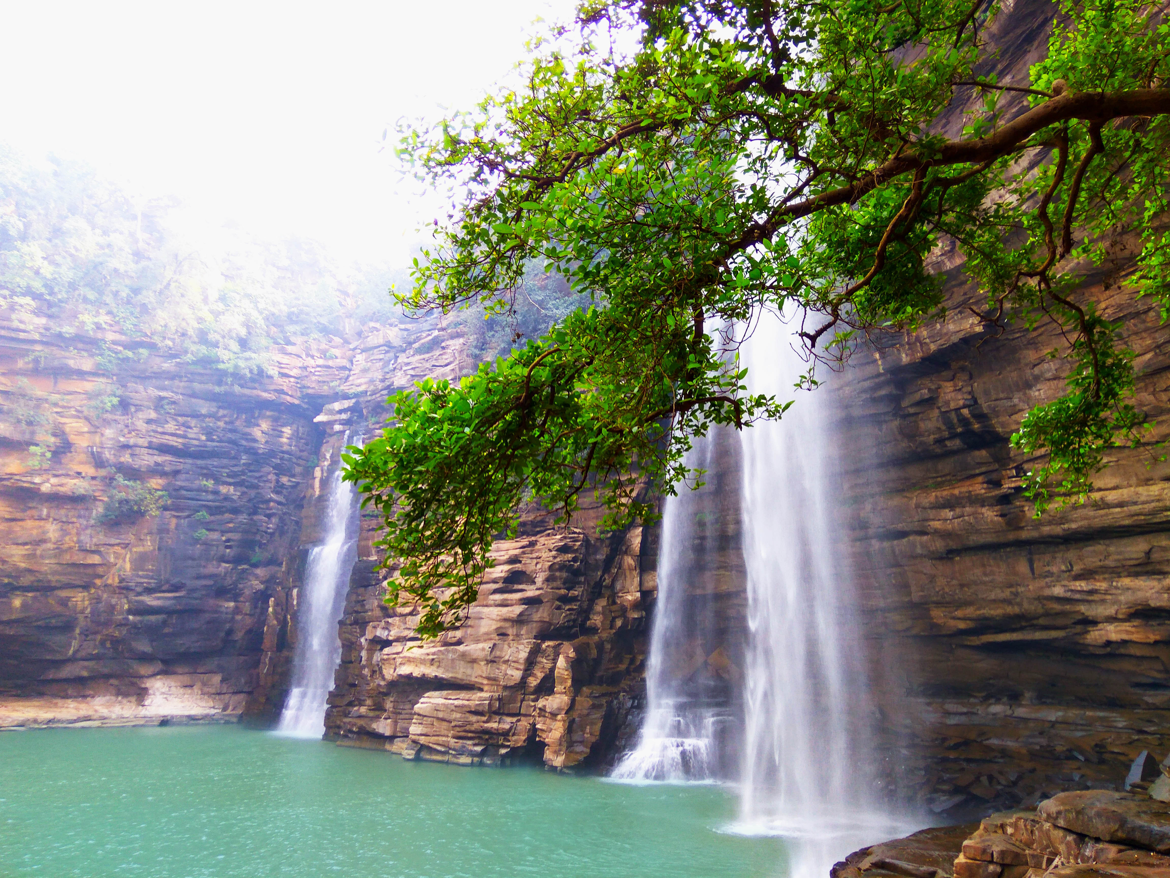 This photo was taken at Lakhaniya Dari Waterfalls, Mirzapur, utter Pradesh. A great natural beauty and place of tourism.